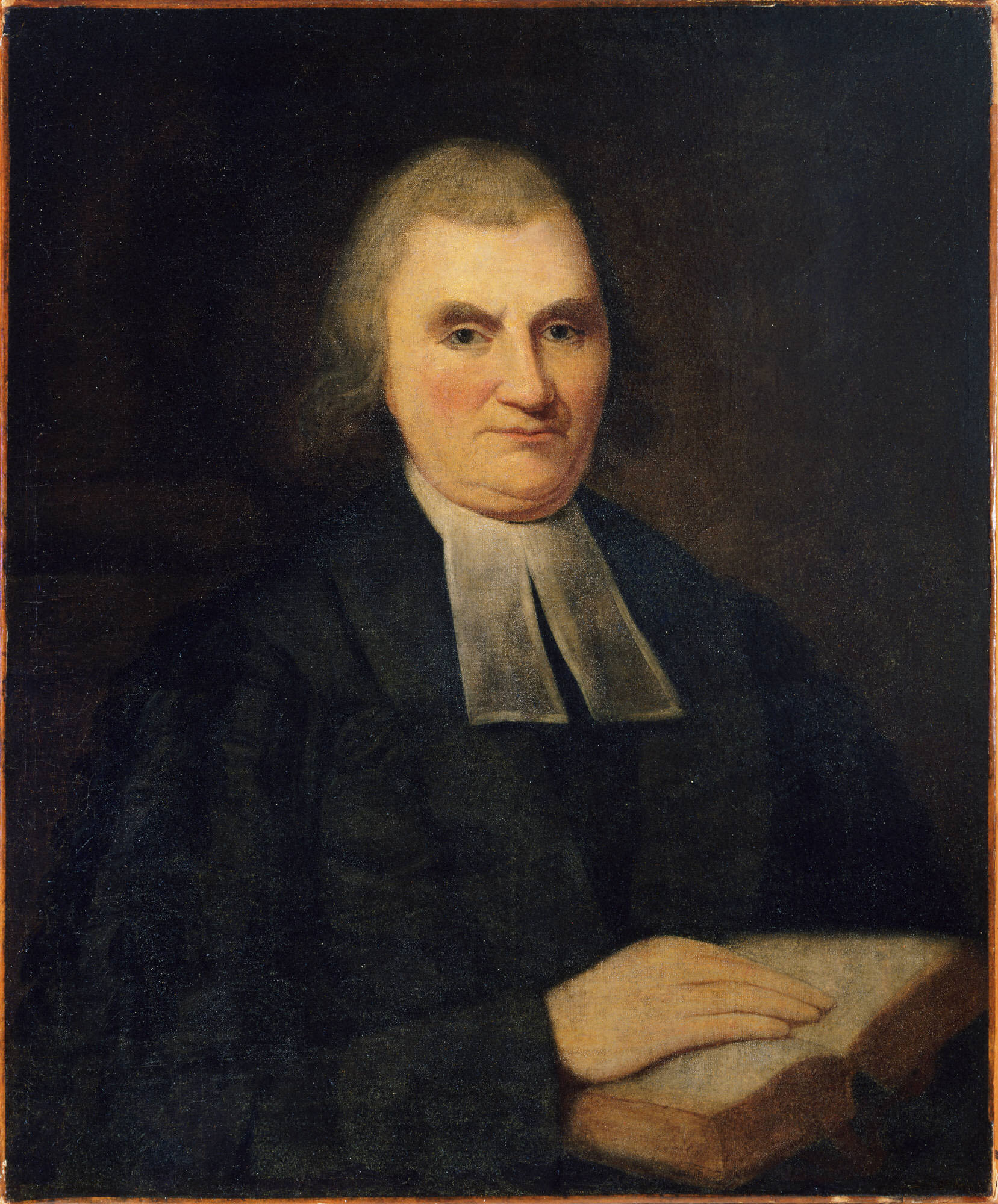 Portrait of John Witherspoon, Presbyterian minister and President of Princeton University; the only clergyman and the only college president to sign the Declaration of Independence.